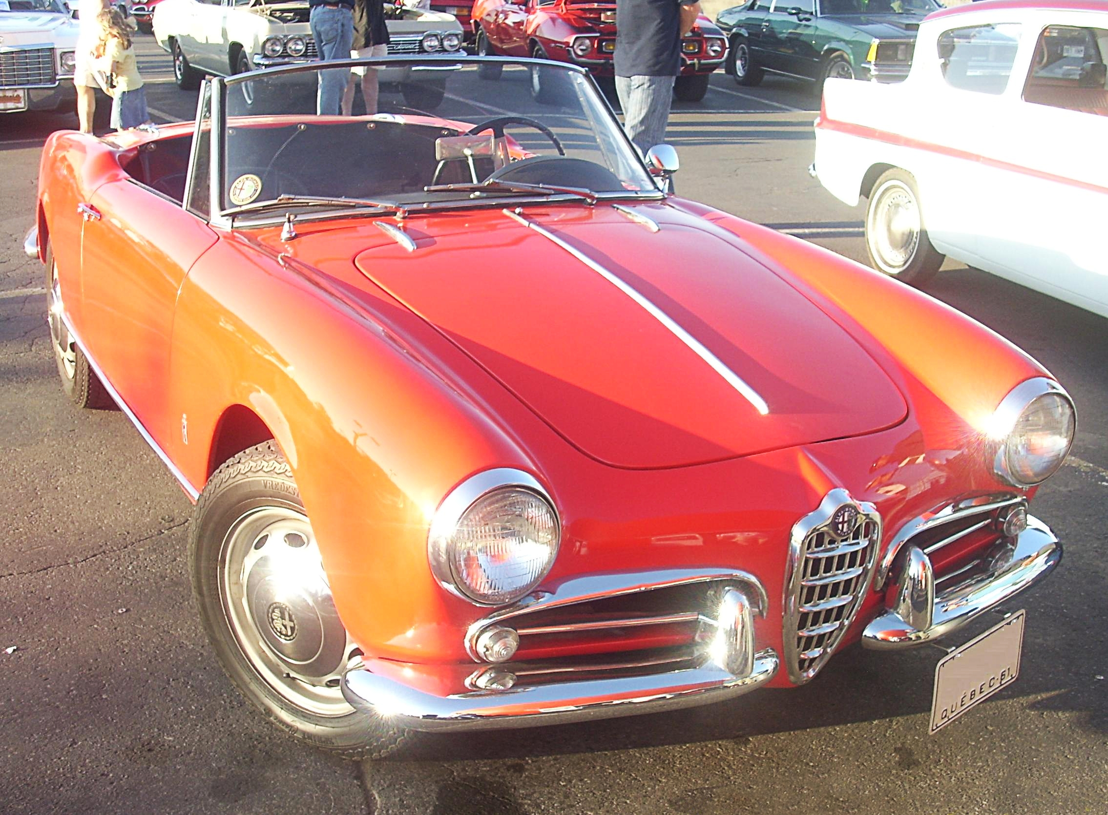 1961 Alfa Romeo Giulietta Spider photographed in Montreal, Quebec, Canada at Gibeau Orange Julep.